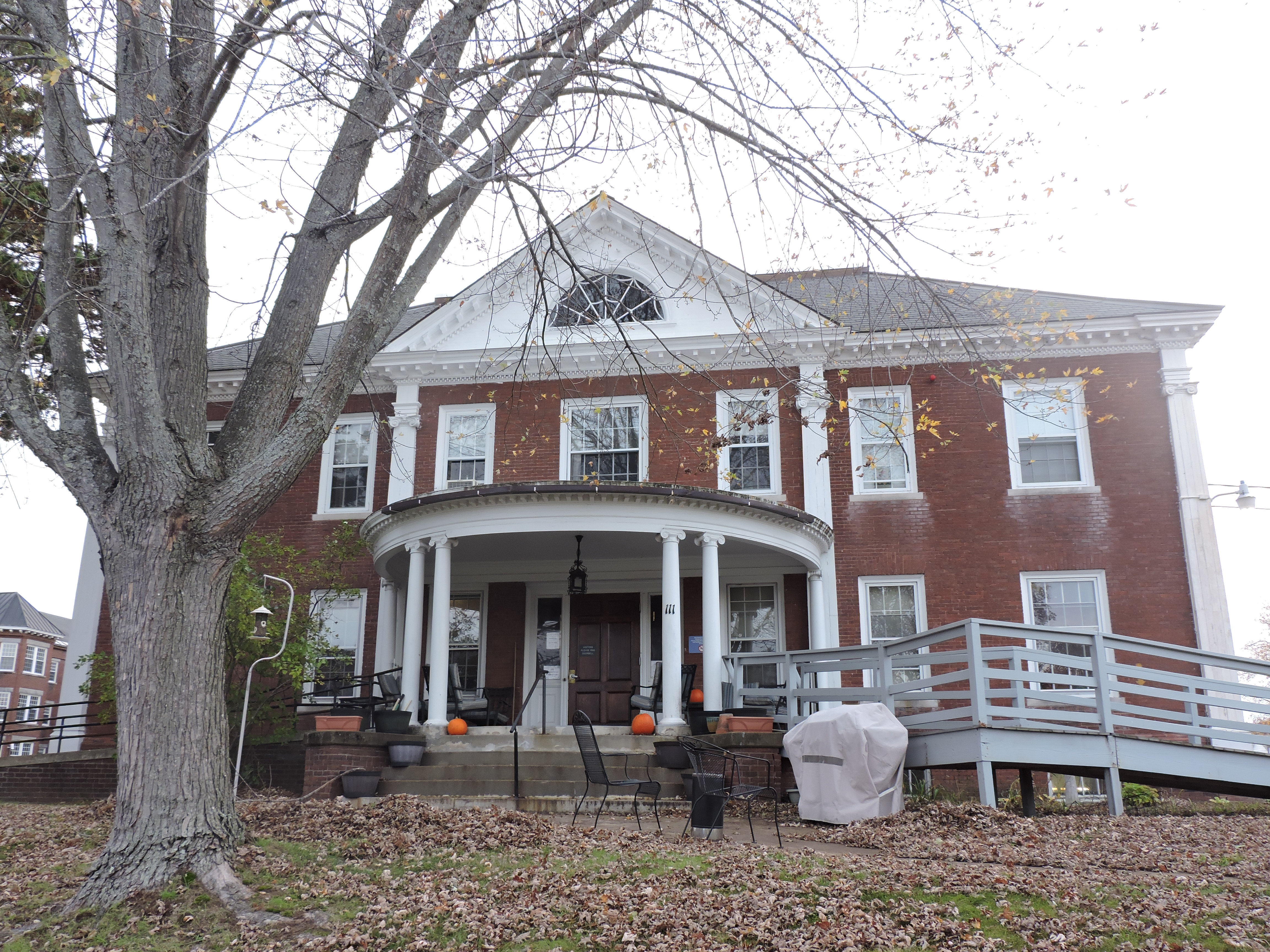 The Twitchell House at the former New Hampshire State Hospital